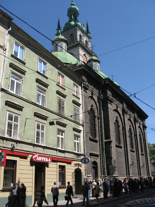 Lviv, Ruska str.3